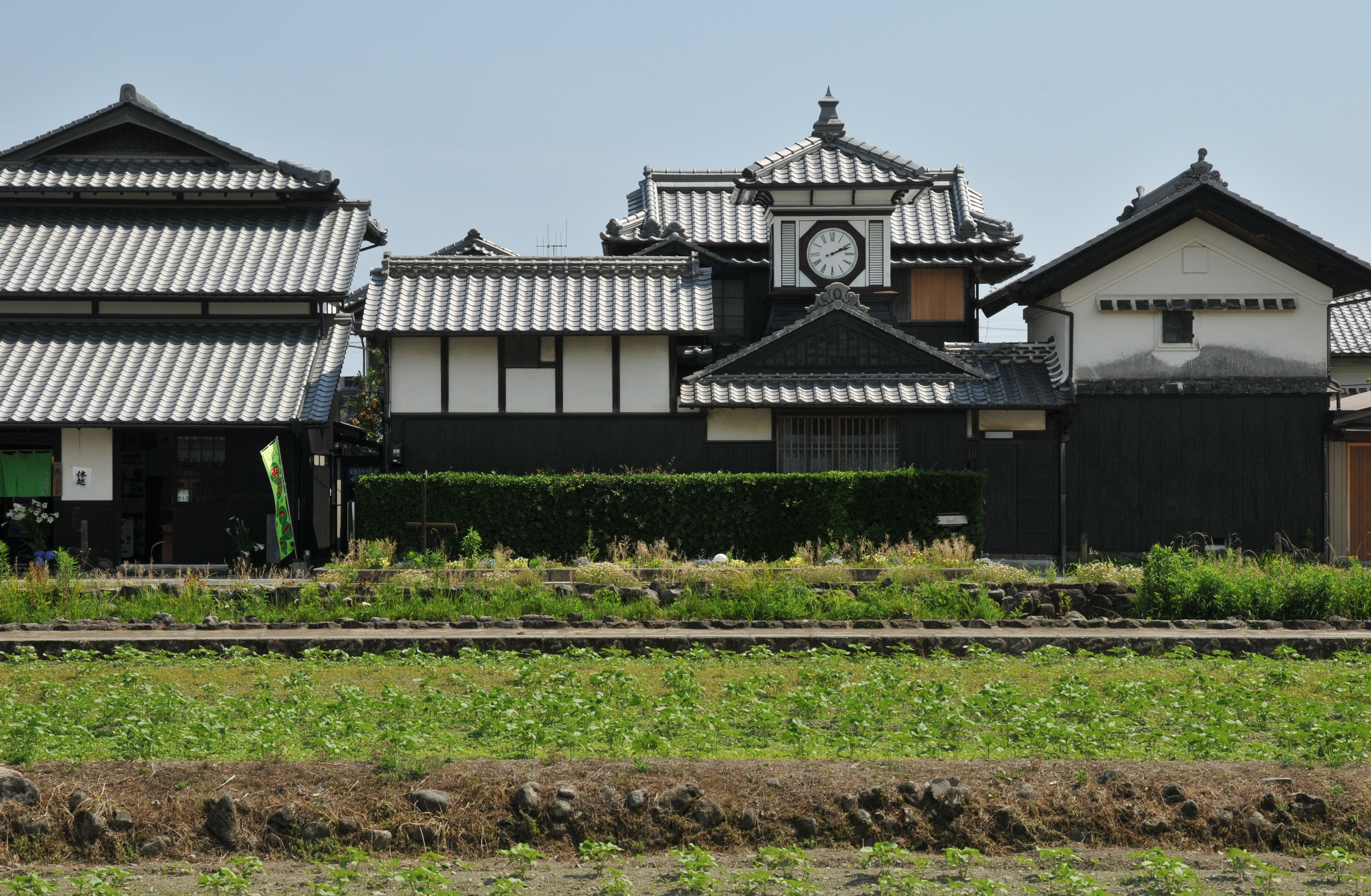 Noradokei (the turret clock)